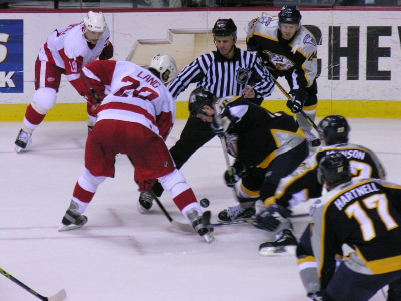 Nashville Predators vs Detroit Red Wings, 18. April 2006